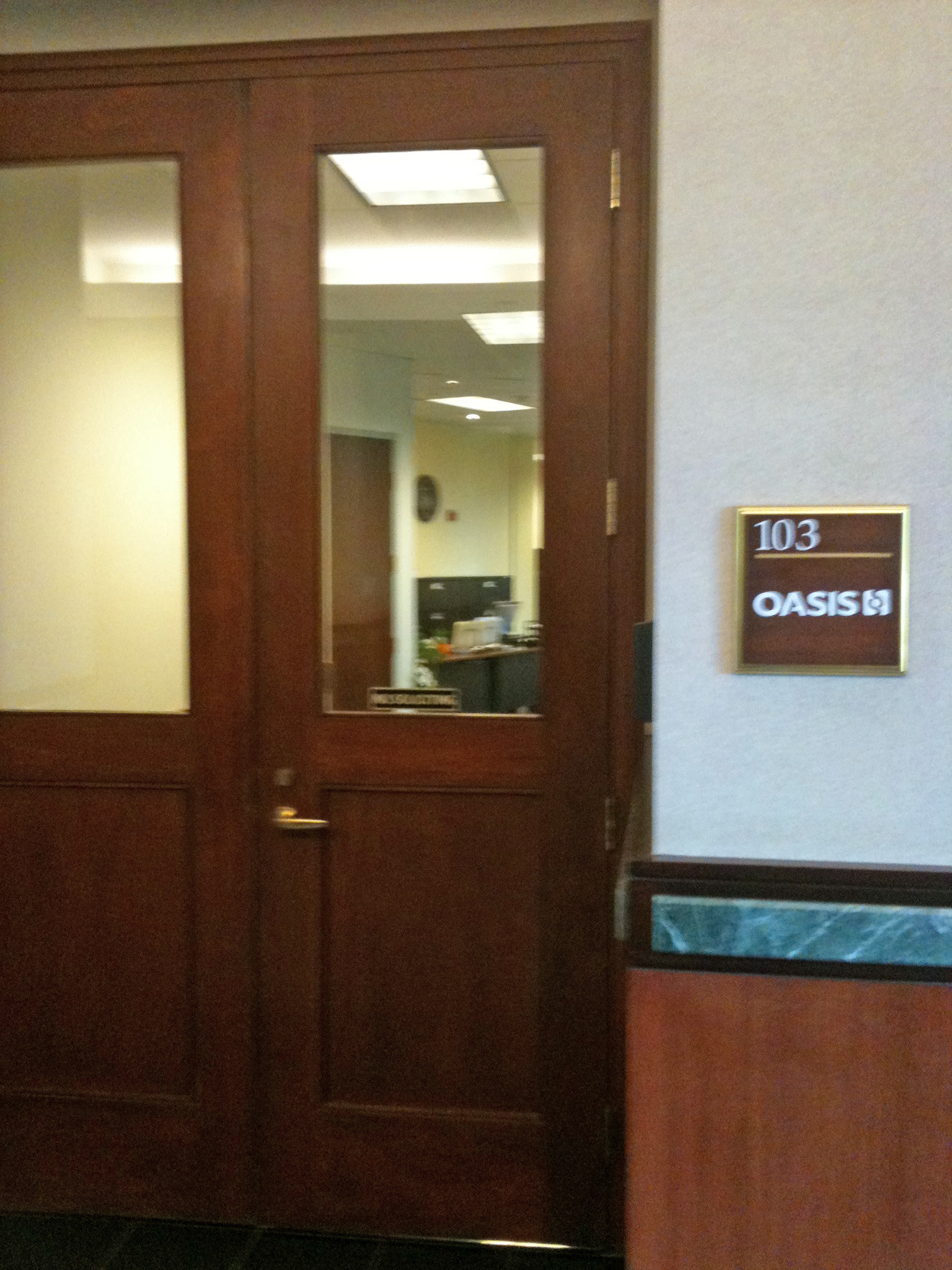 Entrance of the Organization for the Advancement of Structured Information Standards (OASIS) office at 25 Corporate Drive Suite 103 Burlington, MA 01803-4238 USA